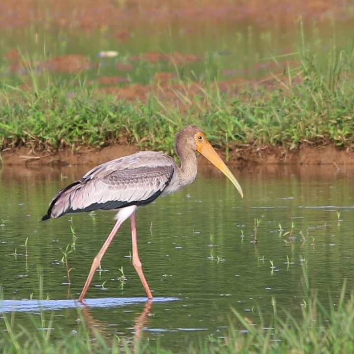 Painted stork juvenile